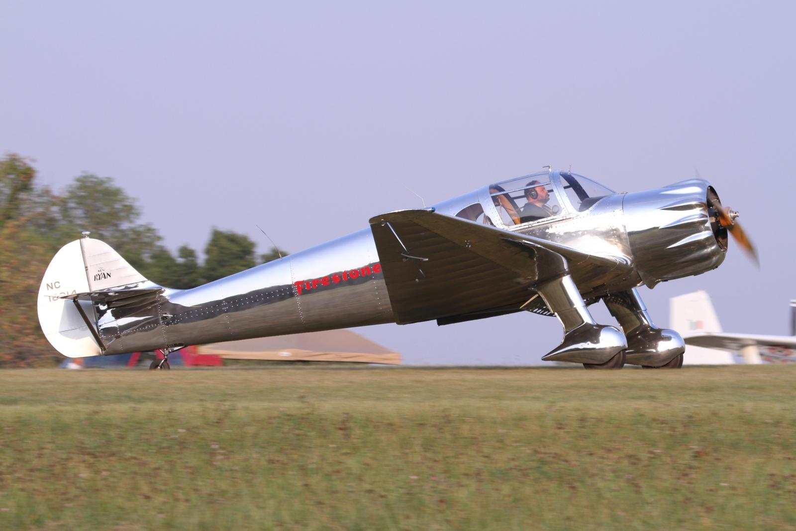 Ryan SCW-145 (NC18914)